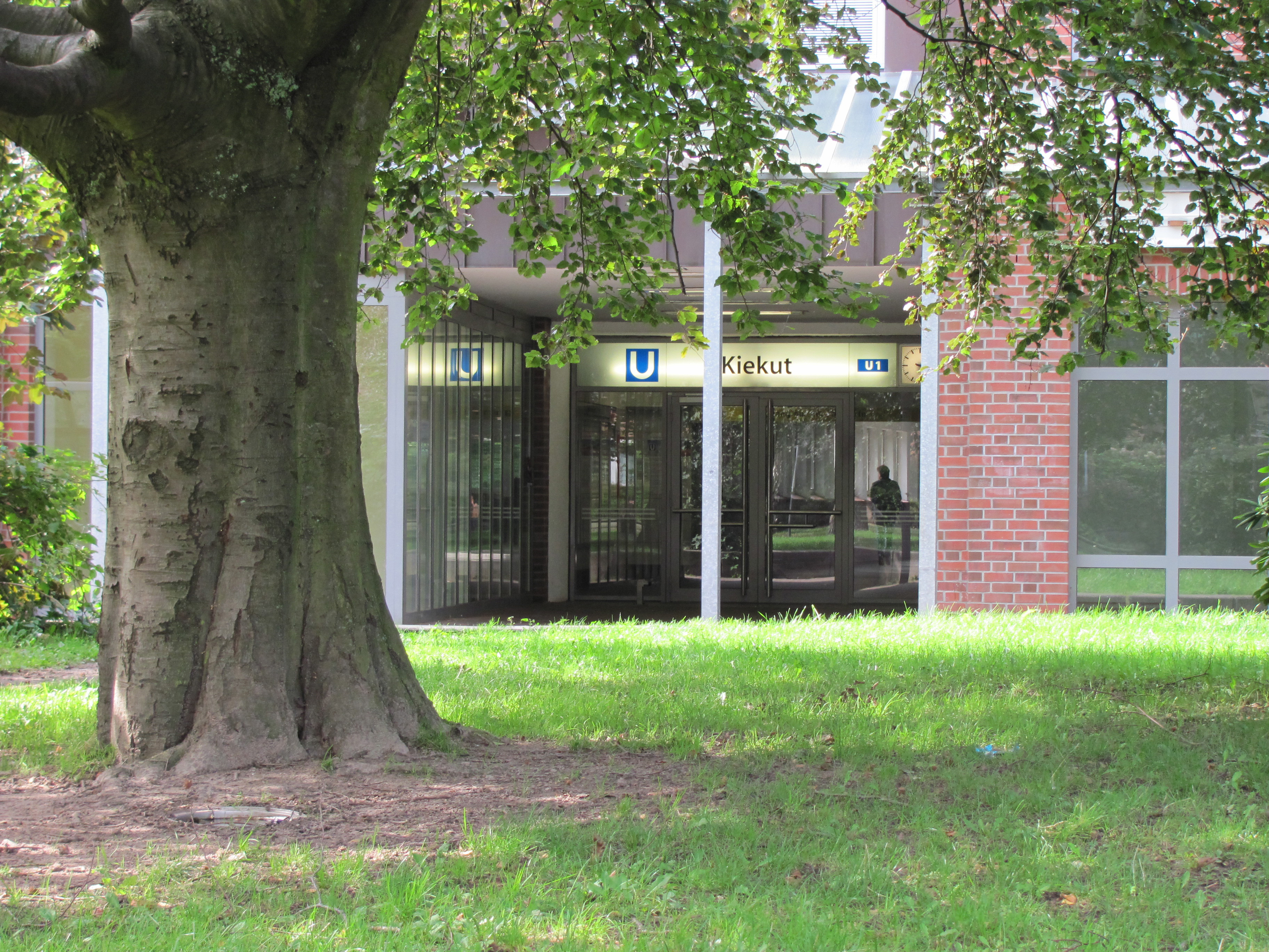 U-Bahn station Kiekut in Großhansdorf, Germany